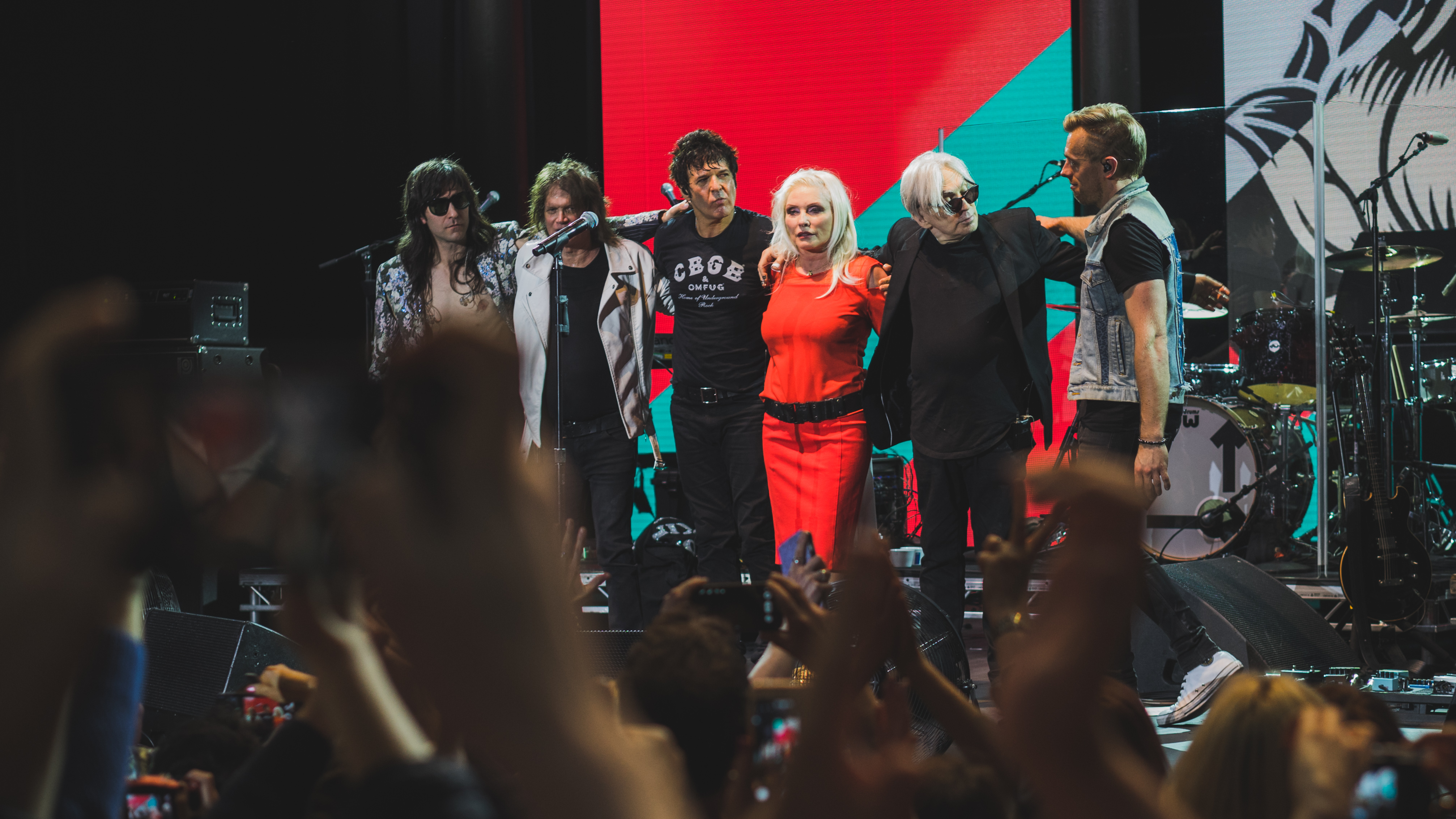 BlondieRoundhouse030517-20